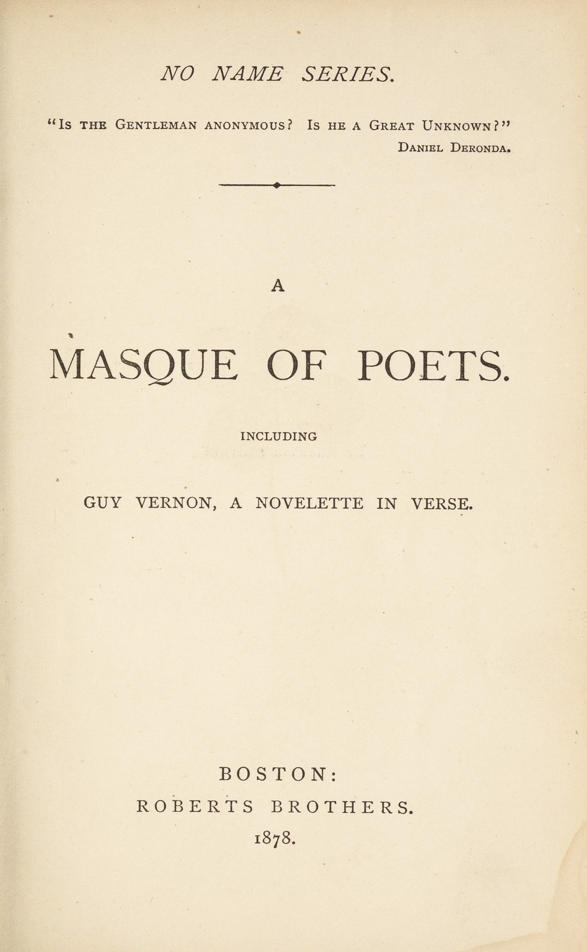 Title page: A Masque of Poets, Boston: Roberts brothers, 1878. Edited by George Parsons Lathrop (1851-1898). The book collected several anonymous poems, including one by Emily Dickinson. 72S-700, Houghton Library, Harvard University